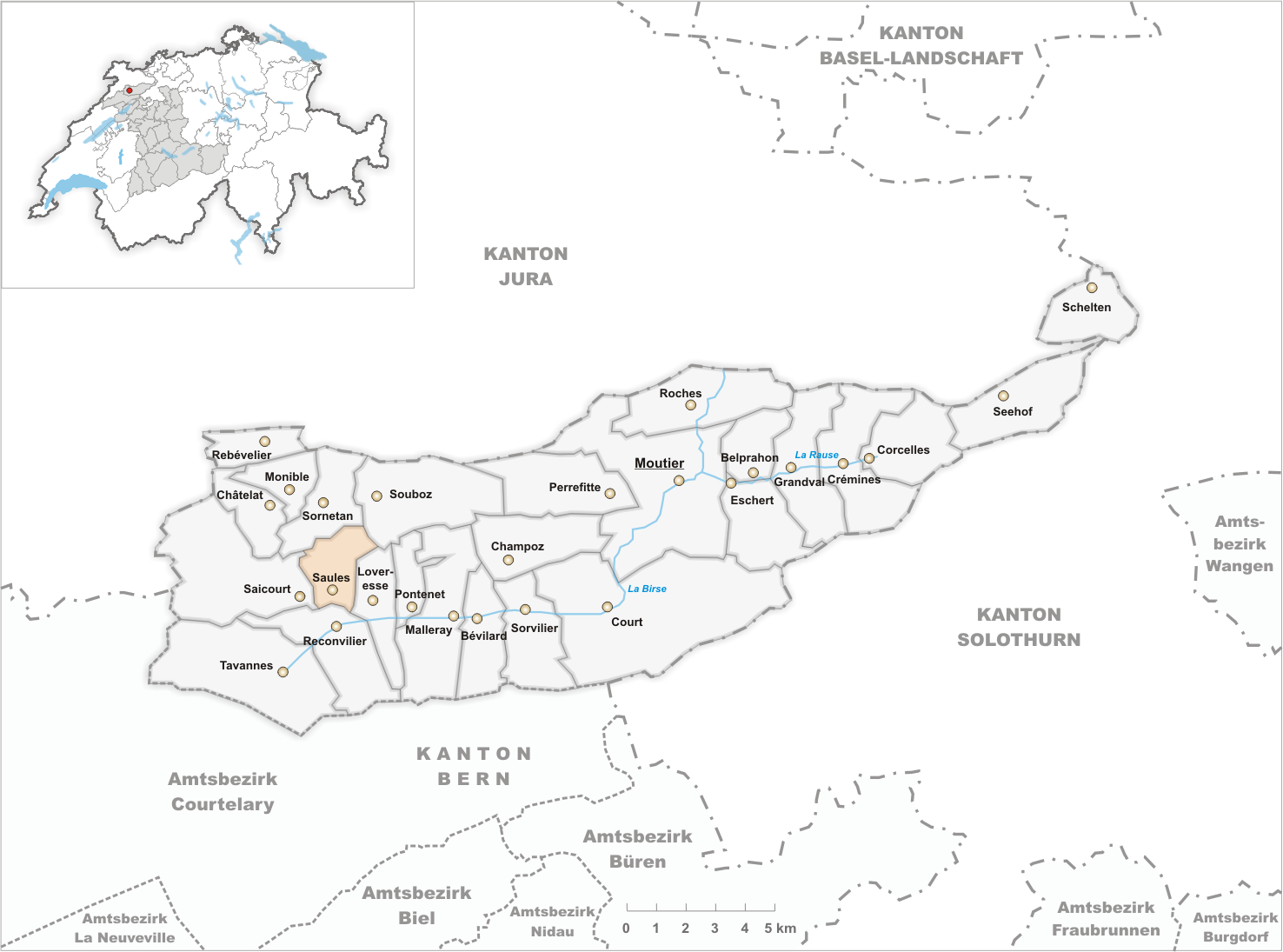 Municipality Saules